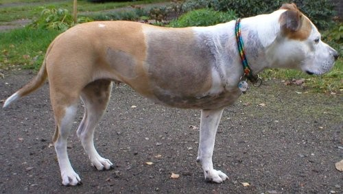 Three-legged dog Sheila 32nd day past amputation.